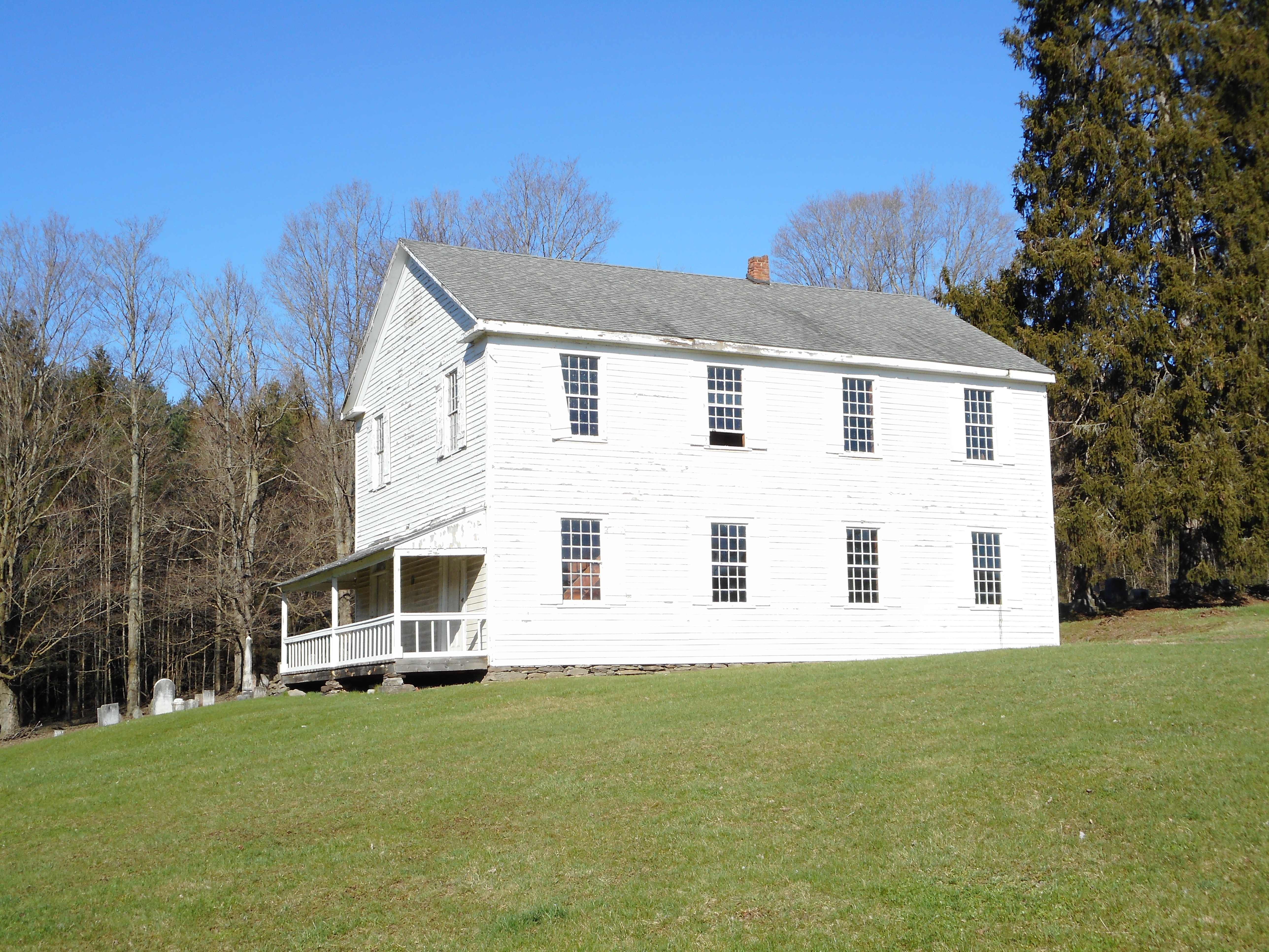 Methodist Episcopal Church of Burlington, listed on the NRHP on January 4, 1990 (#89002280). Located at U.S. Route 6 at Township 357, just in front of the trash dump (seriously) 41°46′24″N 76°37′53″W West Burlington Township, Bradford County, Pennsylvania